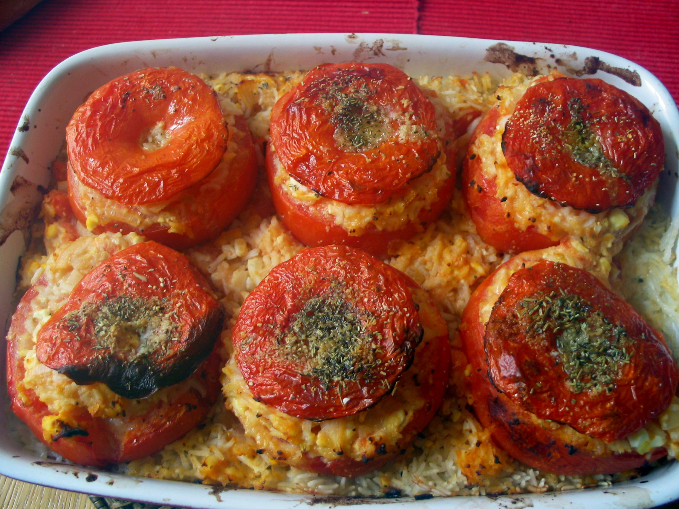 Vegetarian stuffed tomatoes (stuffed with hard-boiled egg and parmesan).